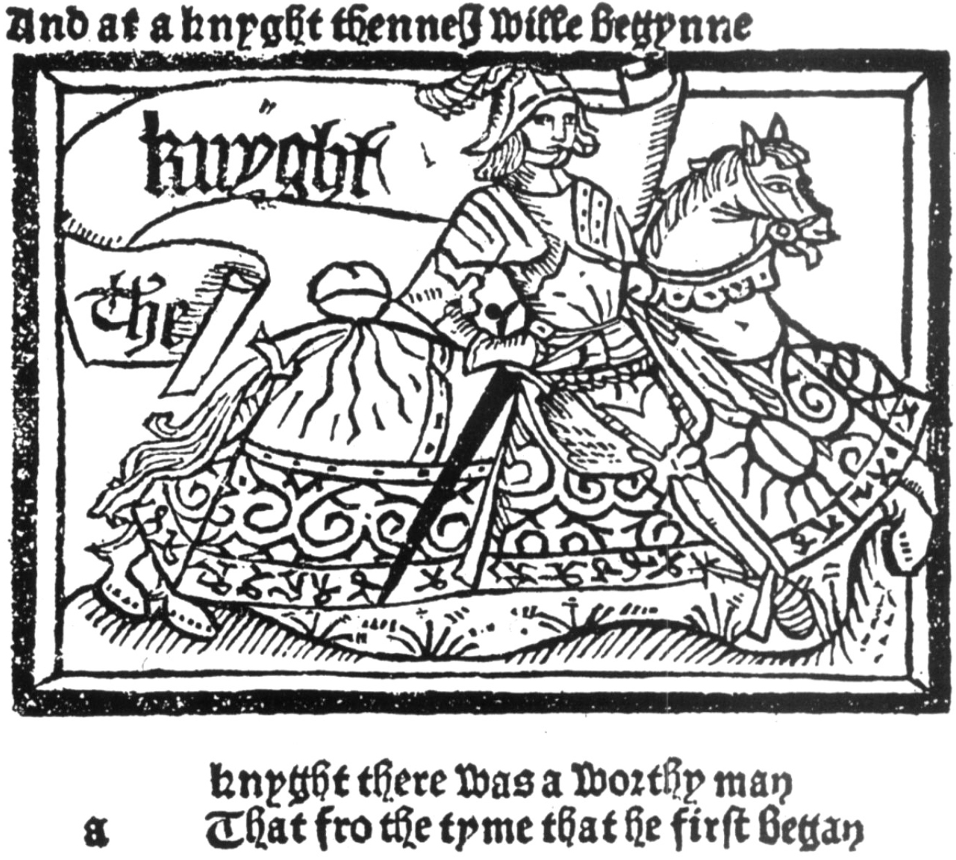 Woodcut from 15th century. From General Prologue page of the Canterbury Tales by Geoffrey Chaucer. The text reads (approximately): And at a knyght than wol I first bigynne. A knyght ther was, and that a worthy man, That fro the tyme that he first bigan As woodcuts were expensive, the same image was reused to illustrate Knight's Tale in an edition printed by Richard Pynson in London, 1492. Scans from University of Glasgow.